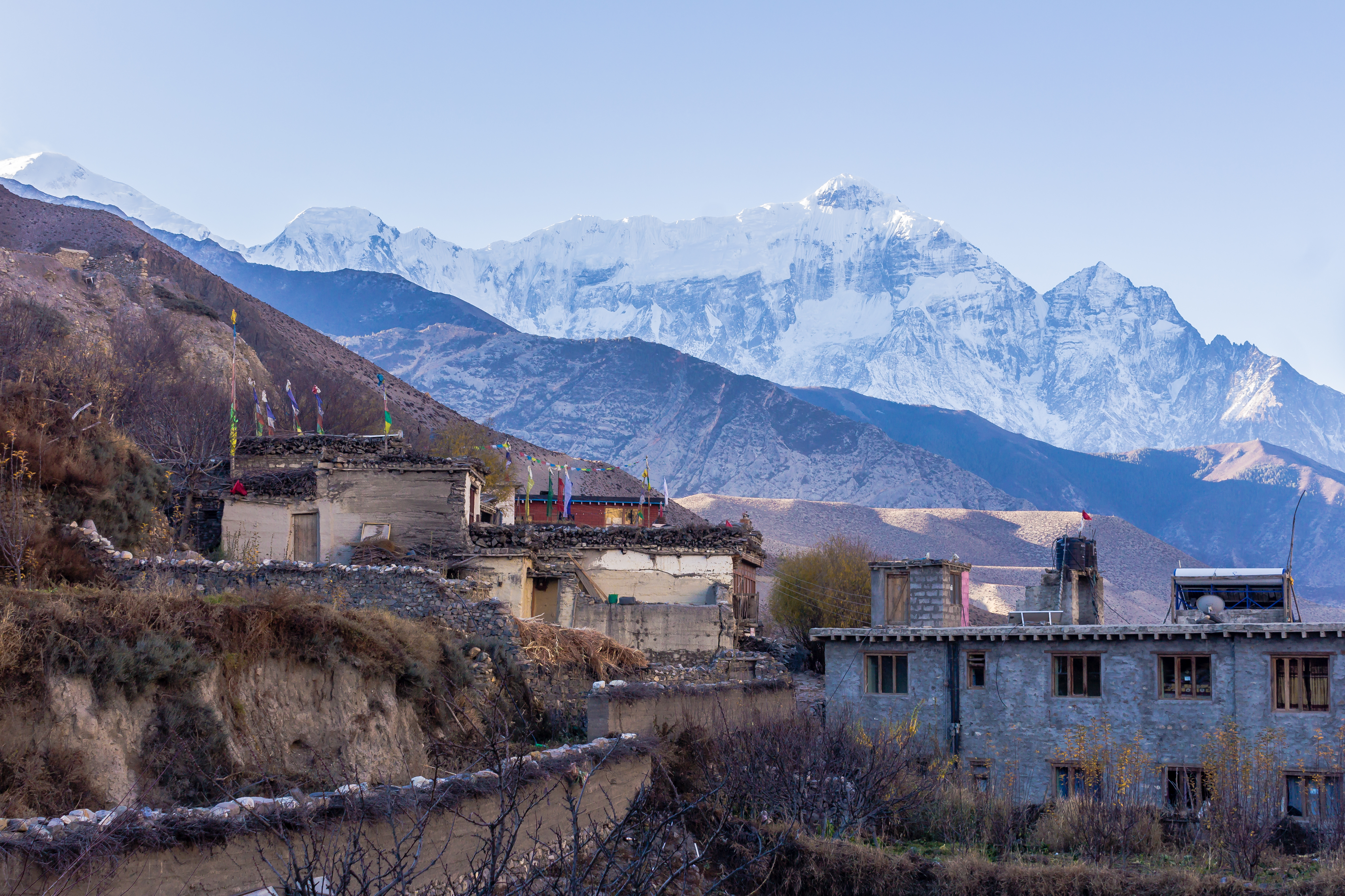 Kagbeni is a village in the Upper Mustang of the Himalayas, in Nepal, located in the valley of the Kali Gandaki River. Administratively, Kagbeni is a Village Development Committee in Mustang District in the Dhawalagiri Zone of northern Nepal. At the time of the 1991 Nepal census it had a population of 1200 people residing in 260 individual households. [1] It lies on the trail from Jomsom to the royal capital Lo Manthang, near the junction with the trail to Muktinath.